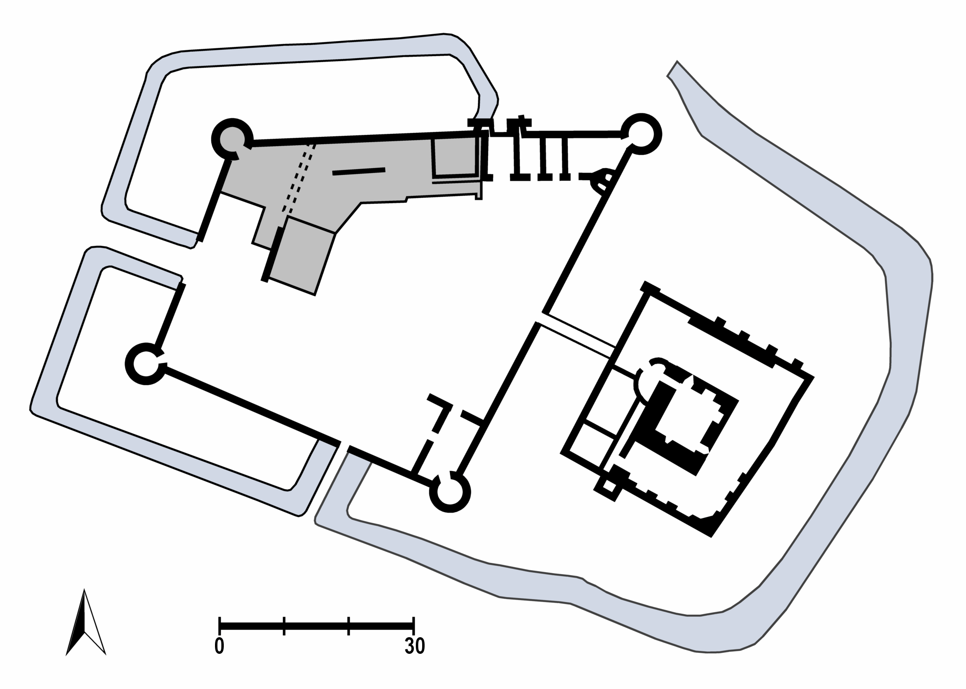 Floorplan of Altendorf Castle in Essen-Burgaltendorf